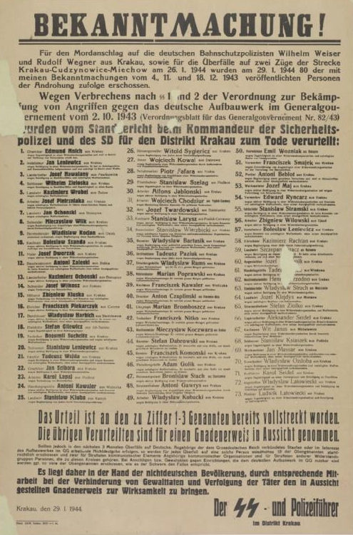 German Announcement that the following 73 people have been imprisoned and sentenced to death. Crimes include knowledge of the illegal possession of guns and failing to inform the authorities, selling of false ration cards and helping Jews (positions 25, 26, 36 and 55 are for this crime) Krakau 29.7.1944